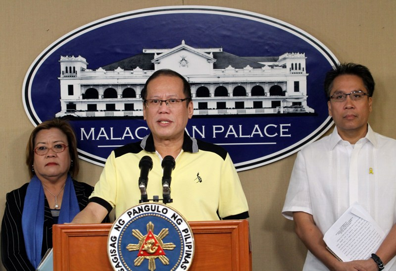 President Benigno S. Aquino III asks Sultan Jamalul Kiram III of Sulu to withdraw his supporters in Sabah to end the standoff peacefully during the press briefing at the New Executive Building, Malacañan Palace on Tuesday (February 26). In photo are Justice Secretary Leila de Lima and Interior and Local Government Secretary Manuel Roxas II.